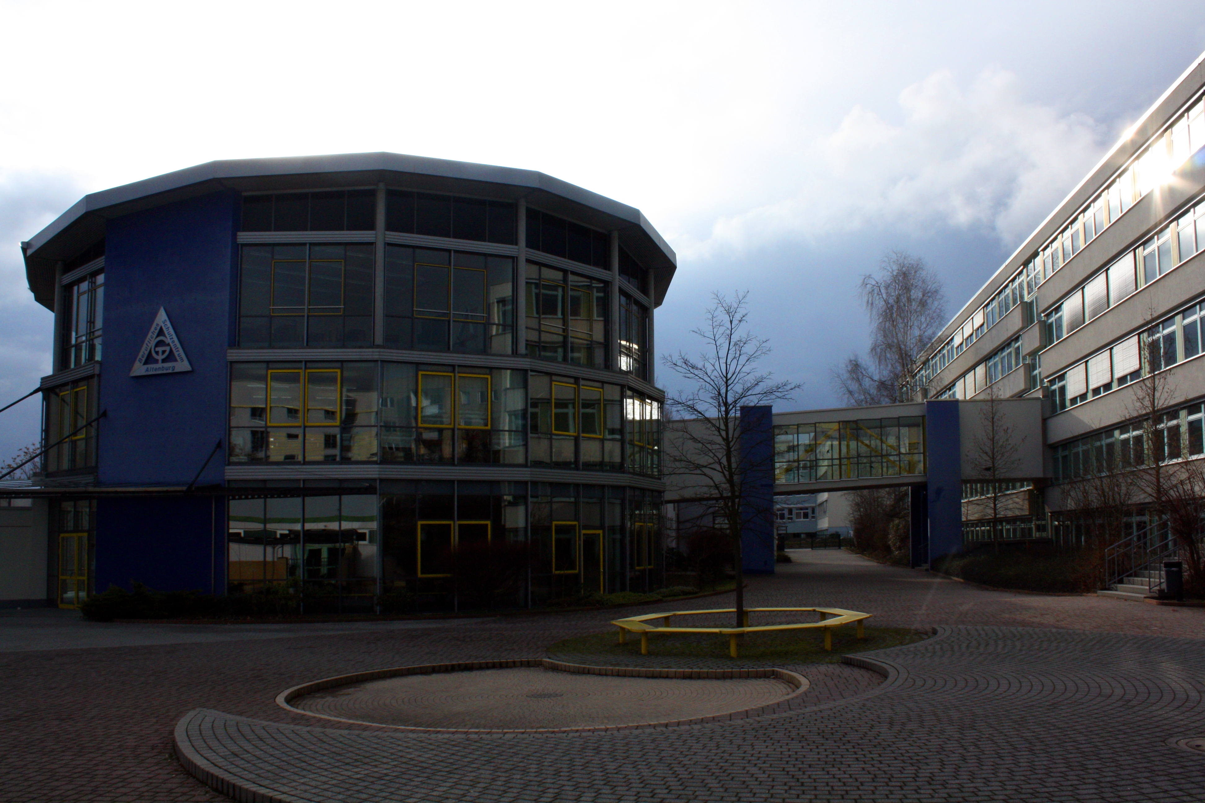 Vocational technical school "Johann Friedrich Pierer" in Altenburg/Thuringia